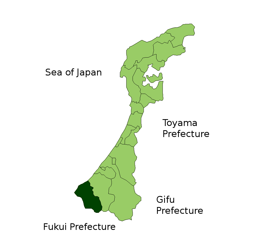 Location Map of Kaga in Ishikawa Prefecture, Japan